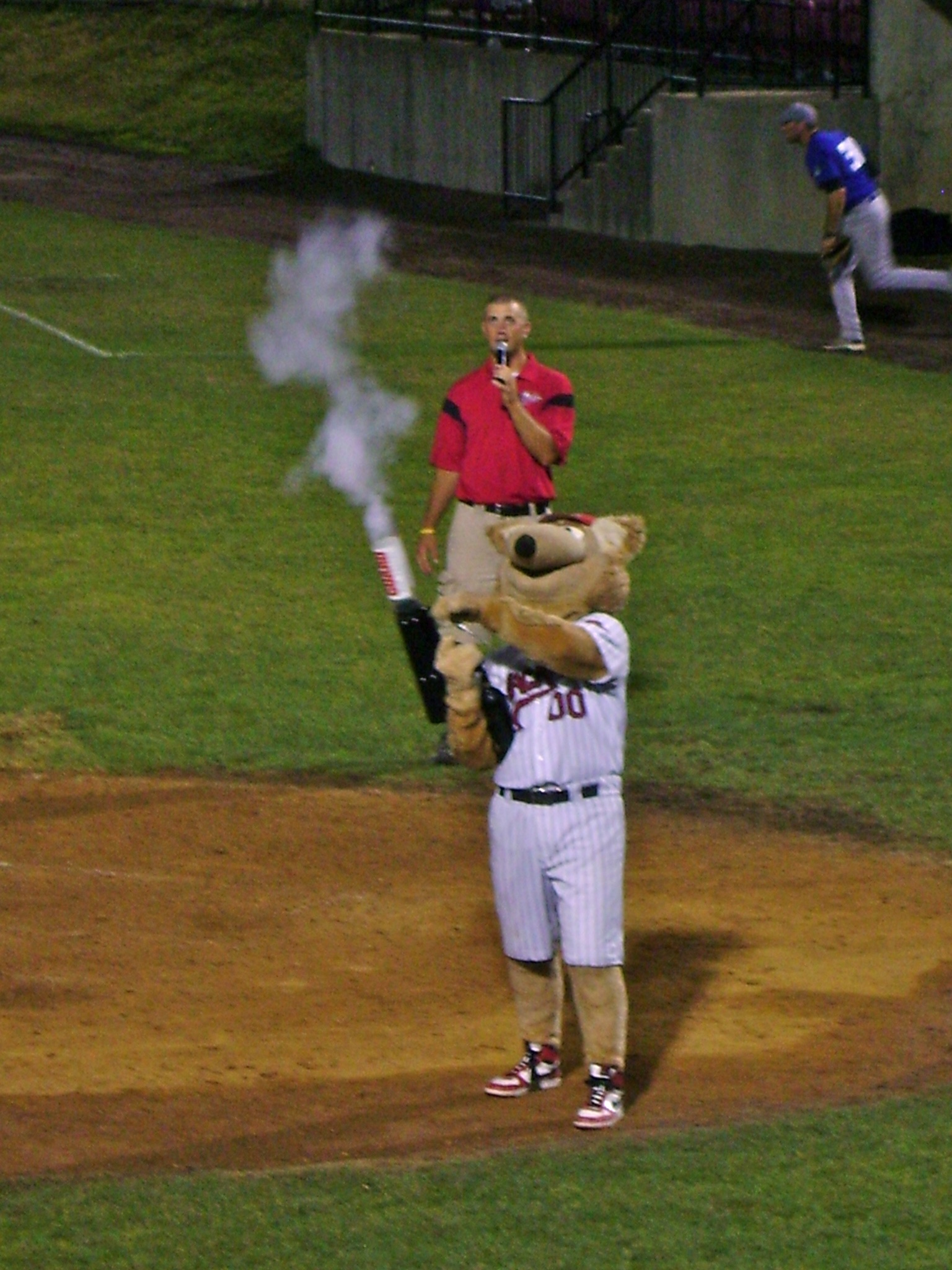 Jack the Jackal in action